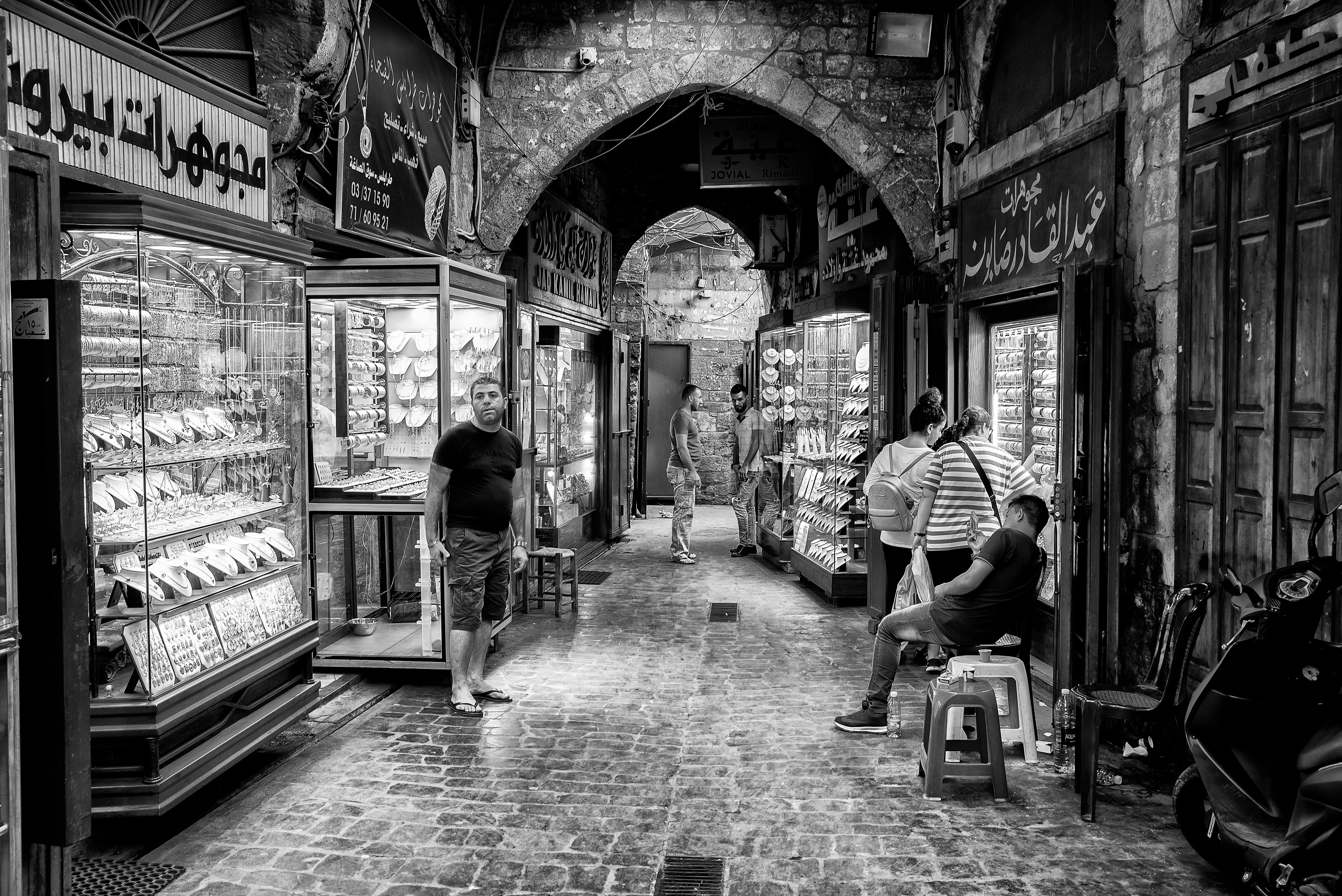 Old Souk in Tripoli